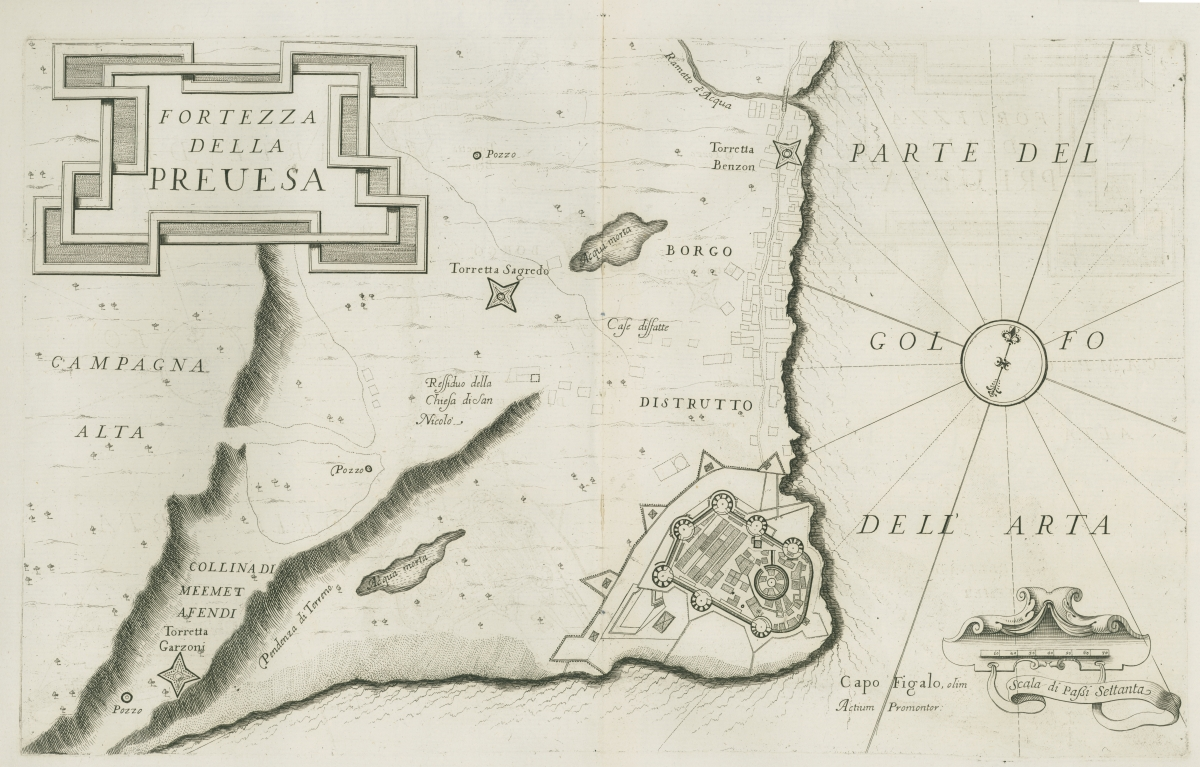 The Castle of Bouka, Preveza (in the Bocca del Golfo - the entrance of the Golf)